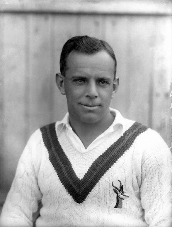 South African tennis player Louis Raymond by Bassano, whole-plate glass negative, 11 June 1929